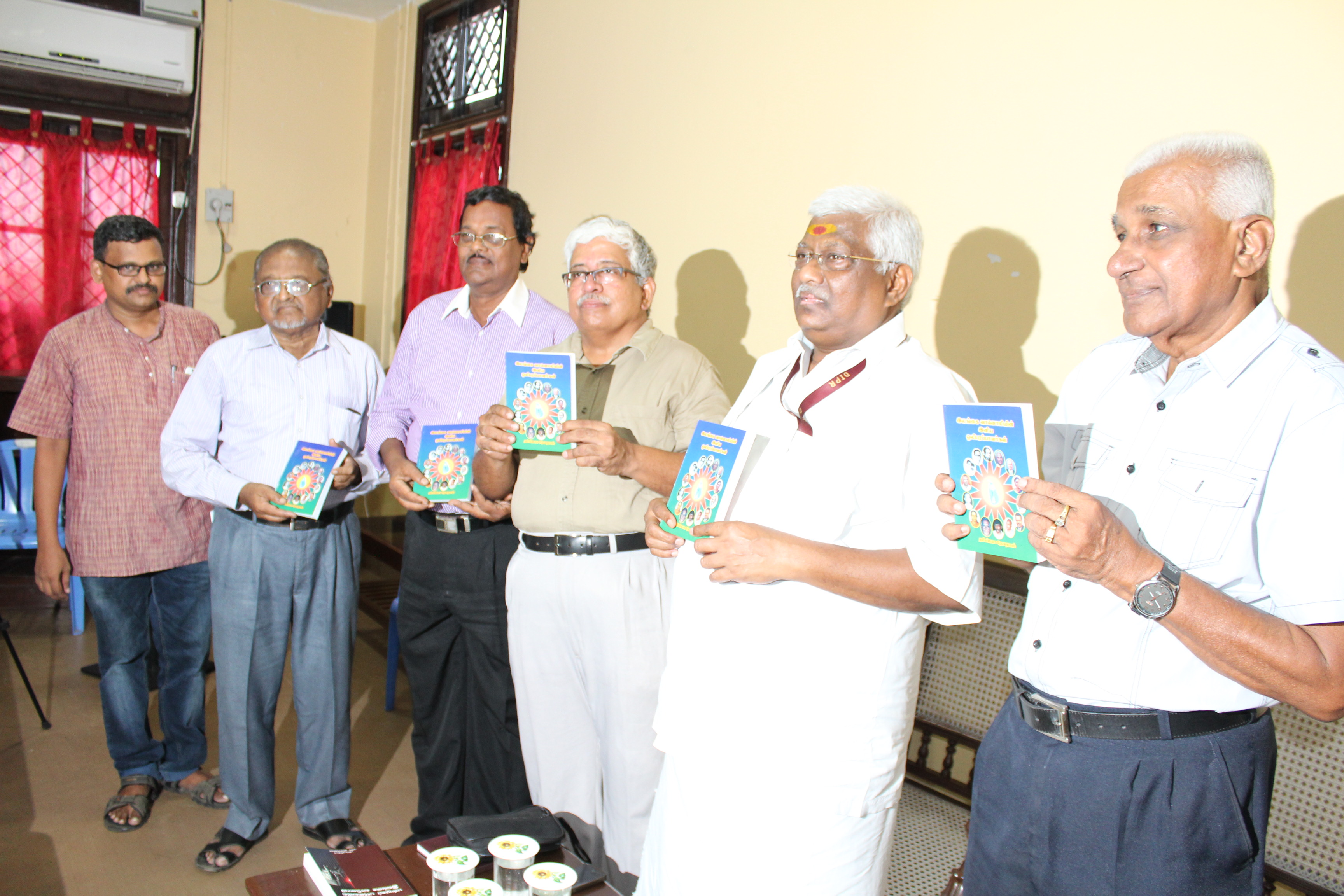 A book written by Thambiaiyah Thevathas, Broadcaster, Sri Lanka Broadcasting Corporation, was introduced in Chennai, India at the Madras University Dept. of Journalism and Communication in a ceremony chaired by the Head of the Dept. Prof. K. Raveendran. The book contains articles about past broadcasters of the Tamil Service of Radio Ceylon now known as SLBC Tamil Service.